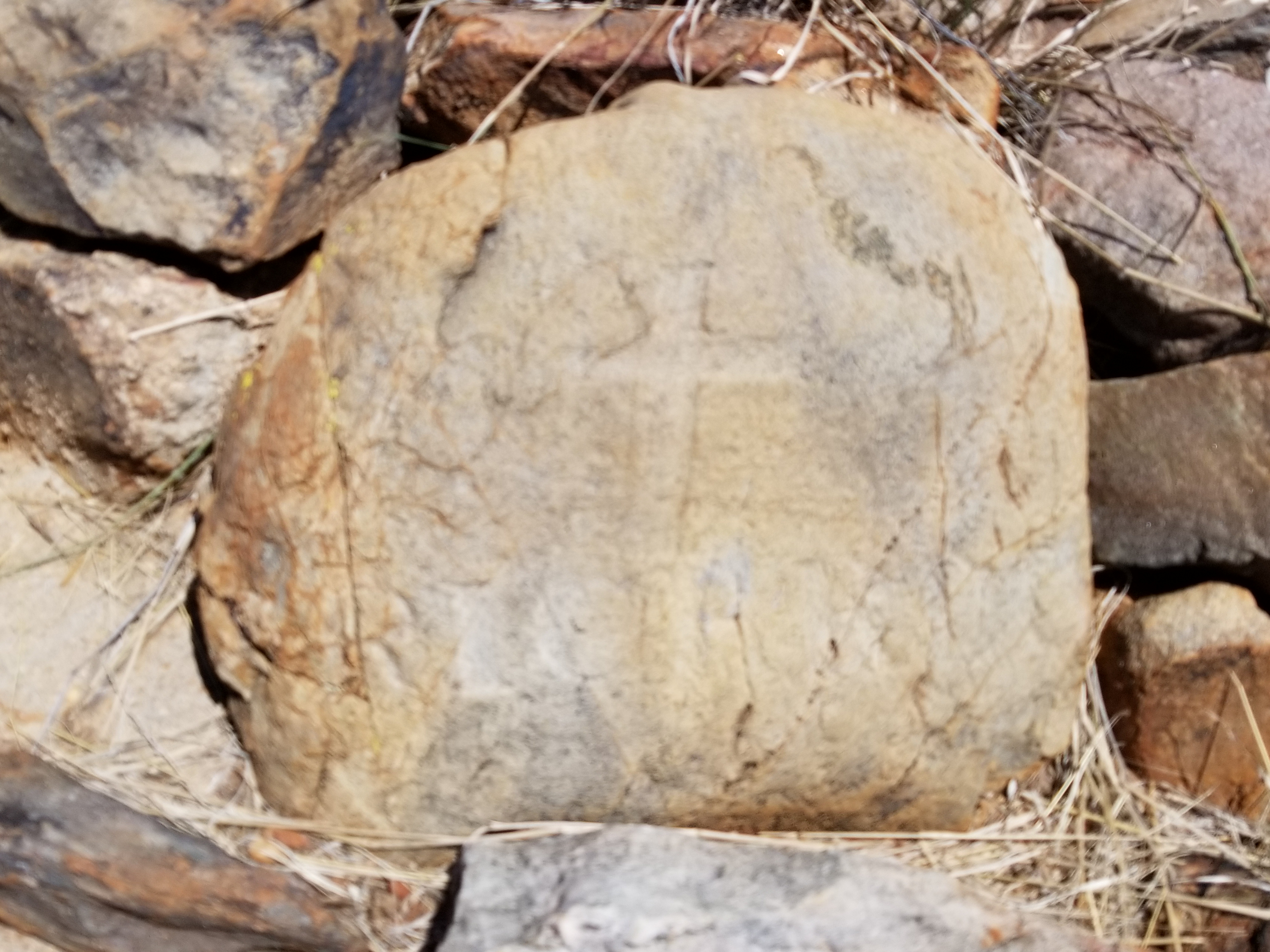 Grave of Pvt. Ricardo(?) at Dragoon Springs